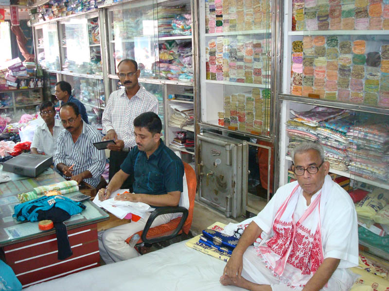 Kalita store inside